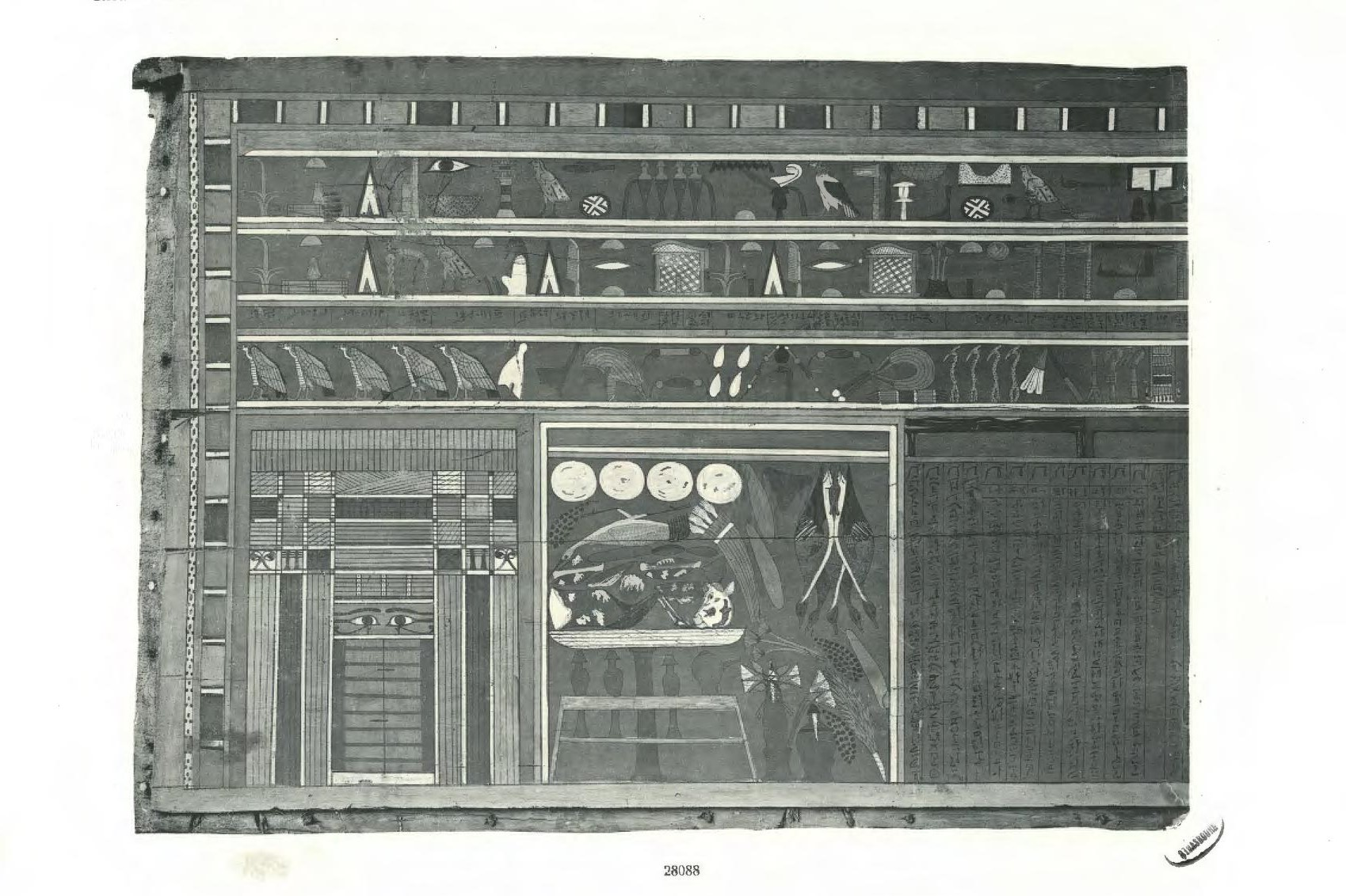 Wooden coffin of the ancient Egyptian steward Nefri. For unknown reasons, the cartouches of the earlier pharaoh Wahkare Khety of the 9th-10th Dynasty were painted on it in place of Nefri's name. From Deir el-Bersha, 12th Dynasty, Middle Kingdom, now in Cairo (CG 28088).